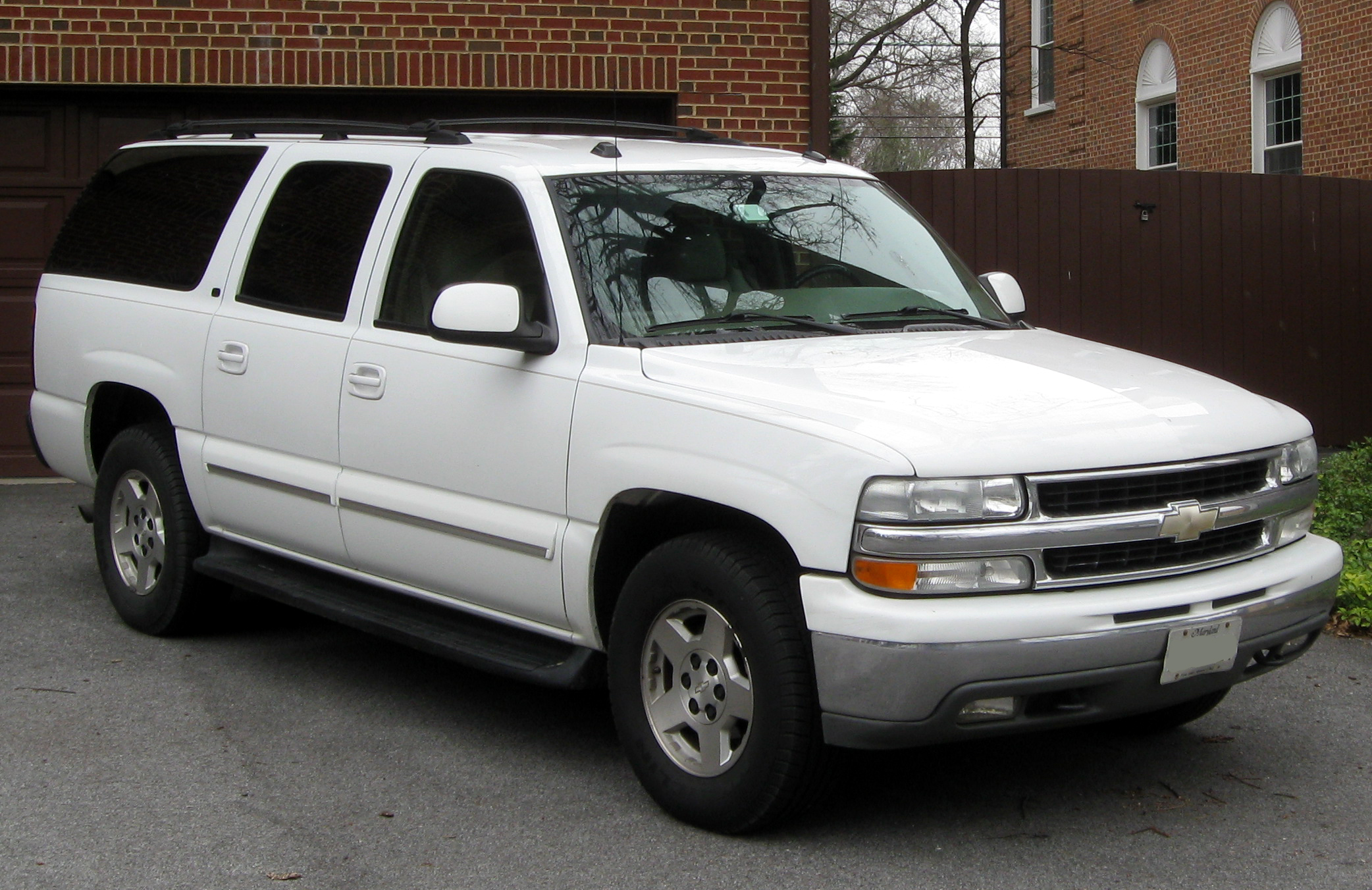 2000-2006 Chevrolet Suburban photographed in Washington, D.C., USA.